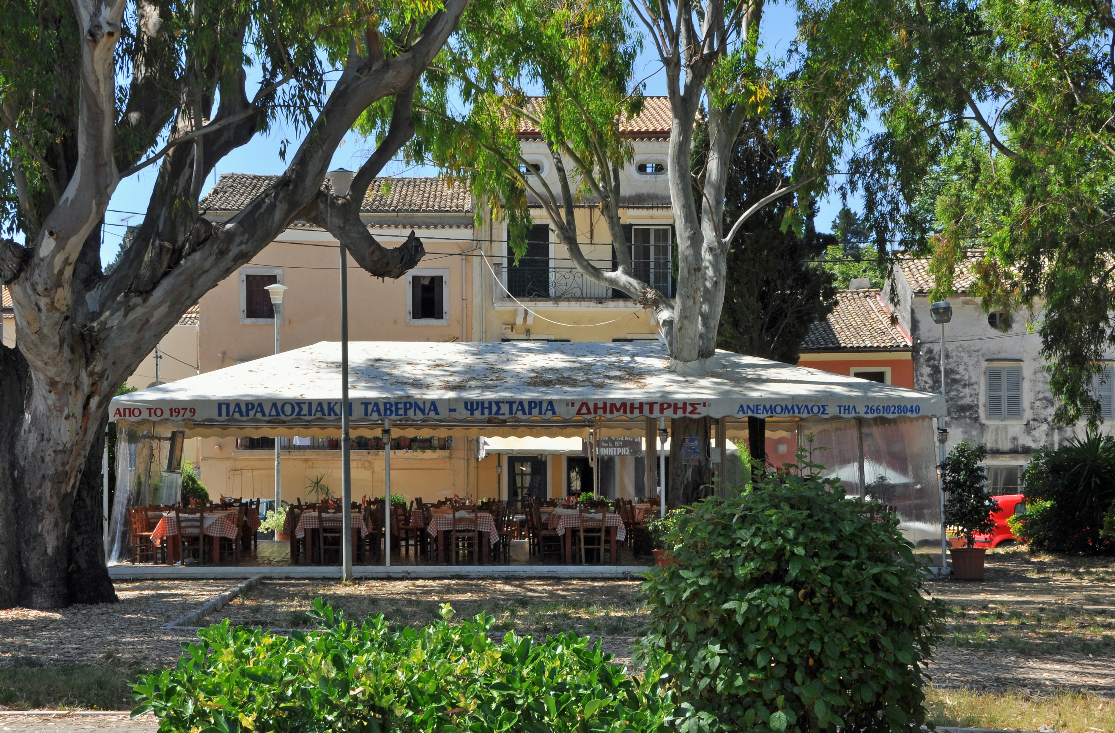 Corfu town (isle of Corfu, Greece): a taverna in Anemomilos district